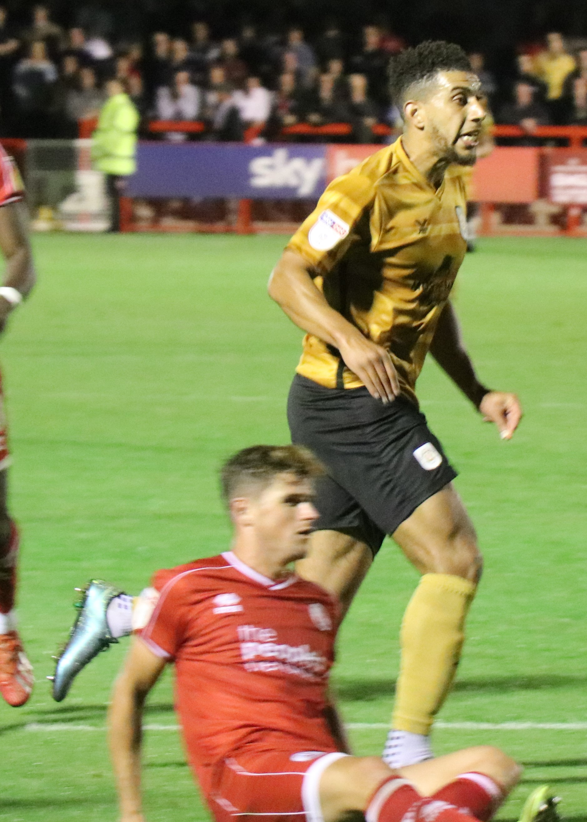 footballer Daniel Powell playing for Crewe Alexandra at Crawley Town